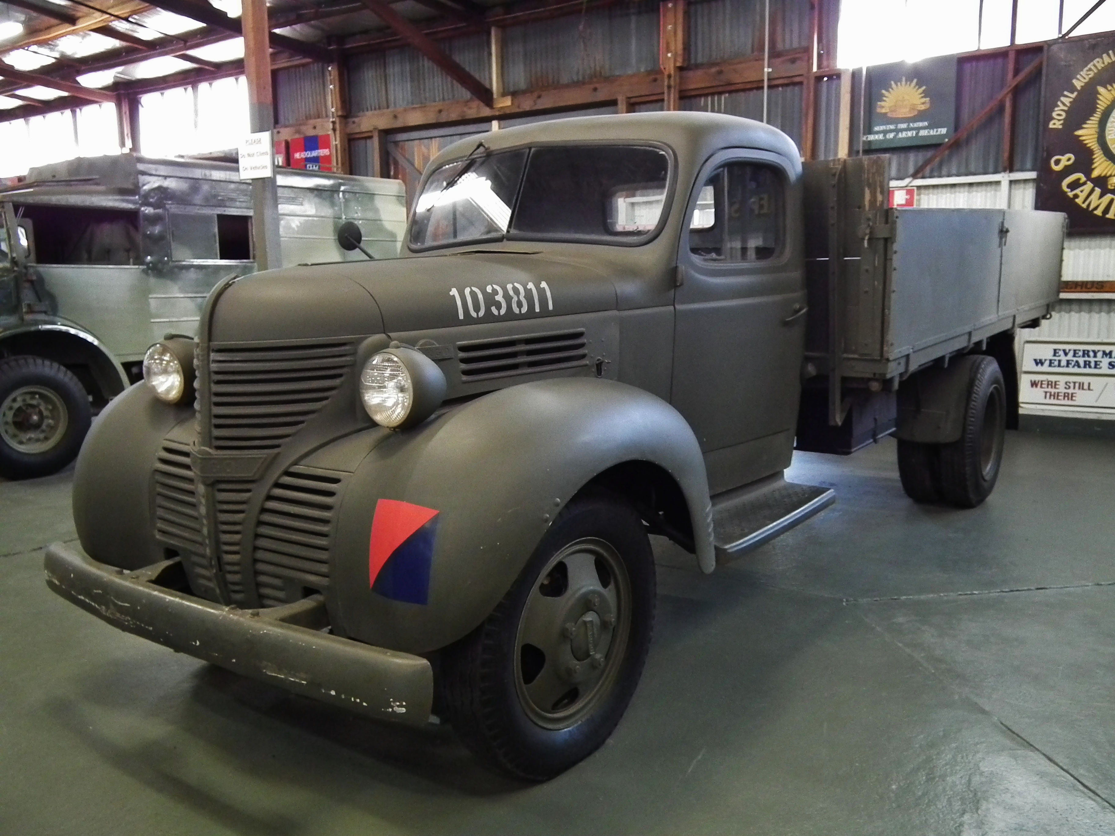 1940 Fargo truck. Taken at the Australian Army History Unit museum in Bandiana, Victoria.